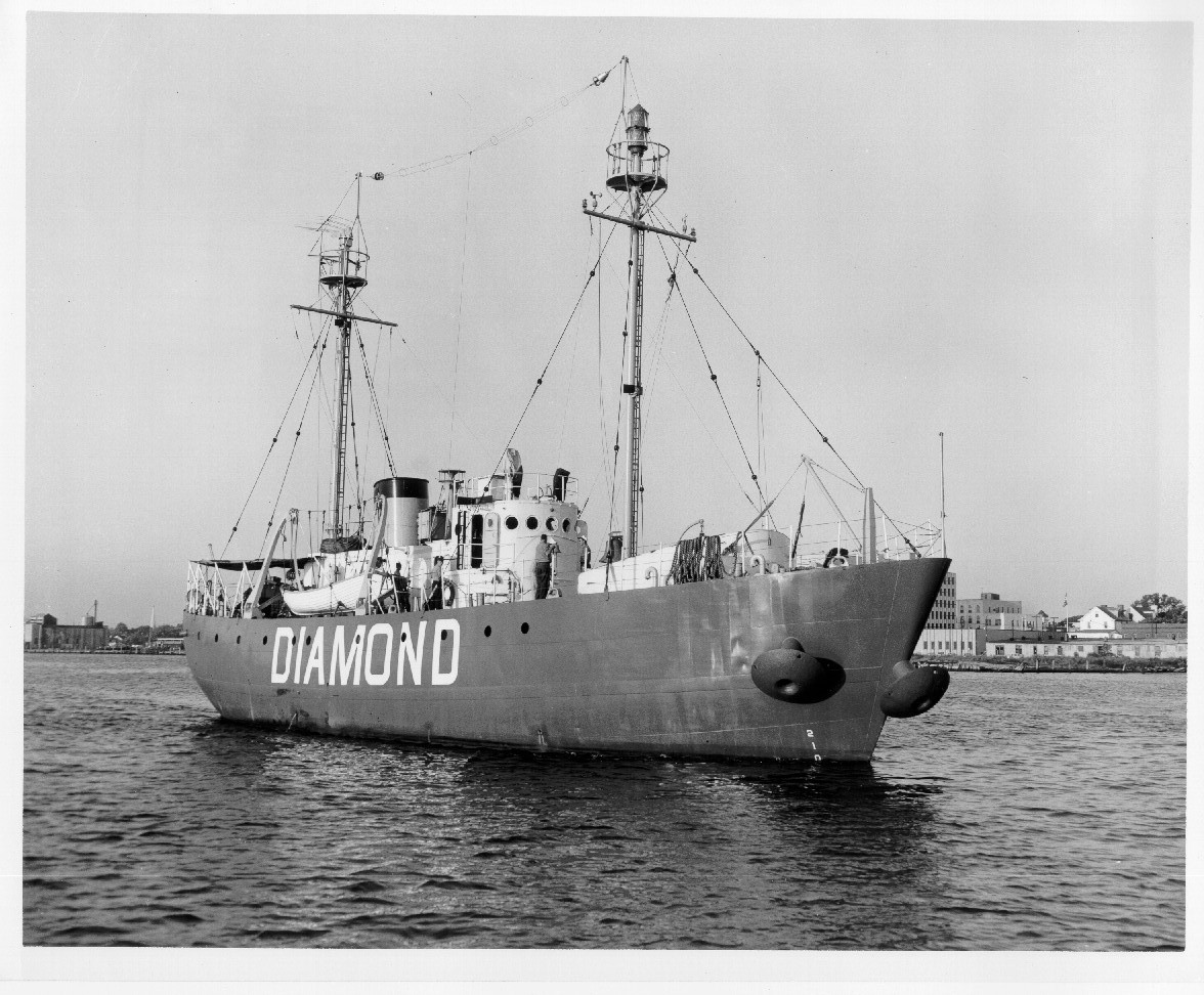 USCG Lightship WLV 189 (Photo No. 08-23062)